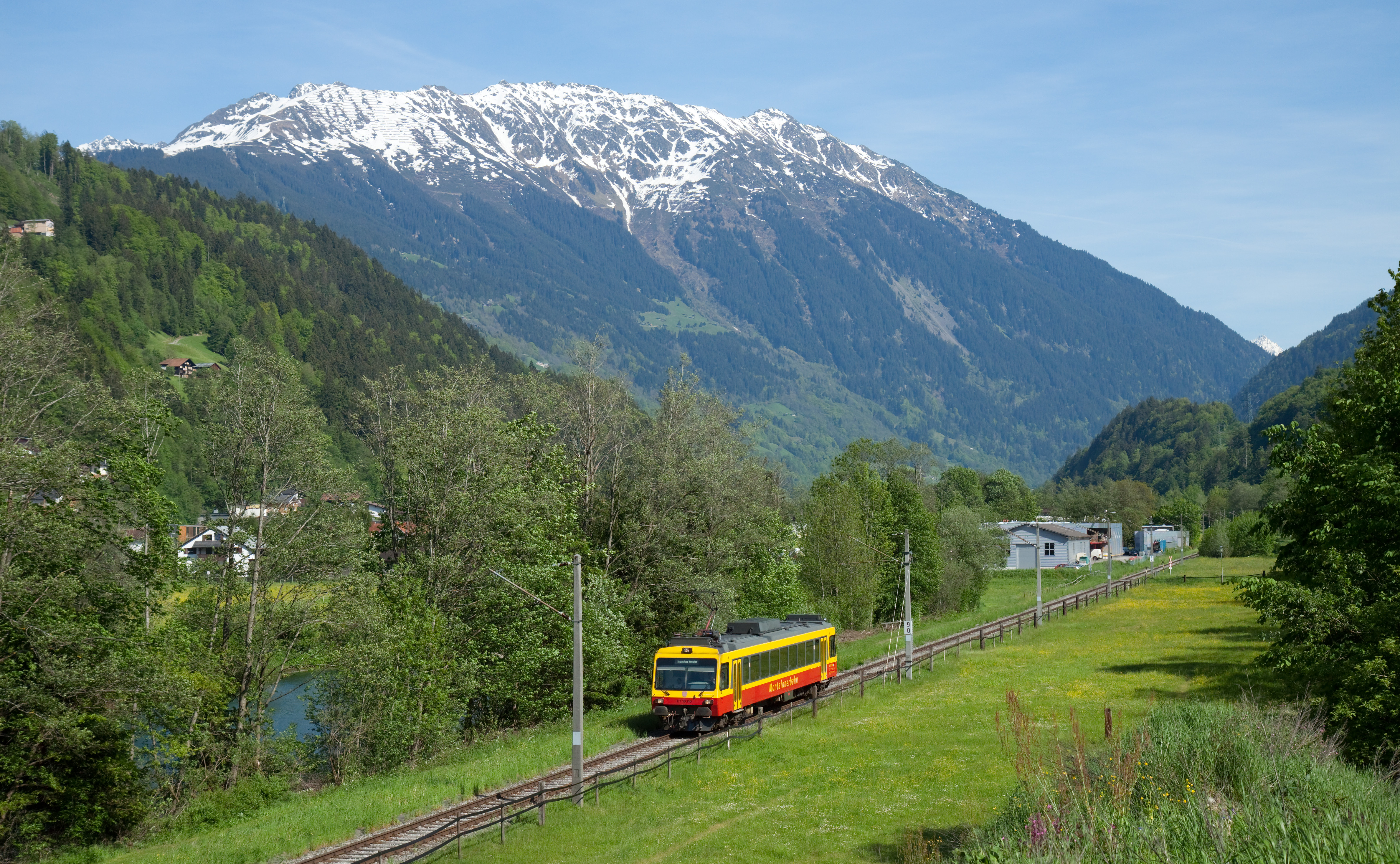 Montafonerbahn ET 10 railcar between Vandans and Kaltenbrunnen (Montafon)